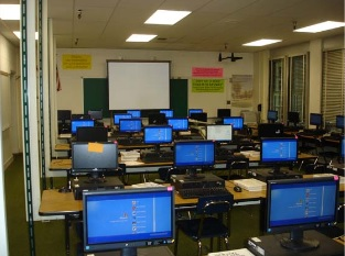 Computer lab - This is one of the computer labs where students learn about modern technology.